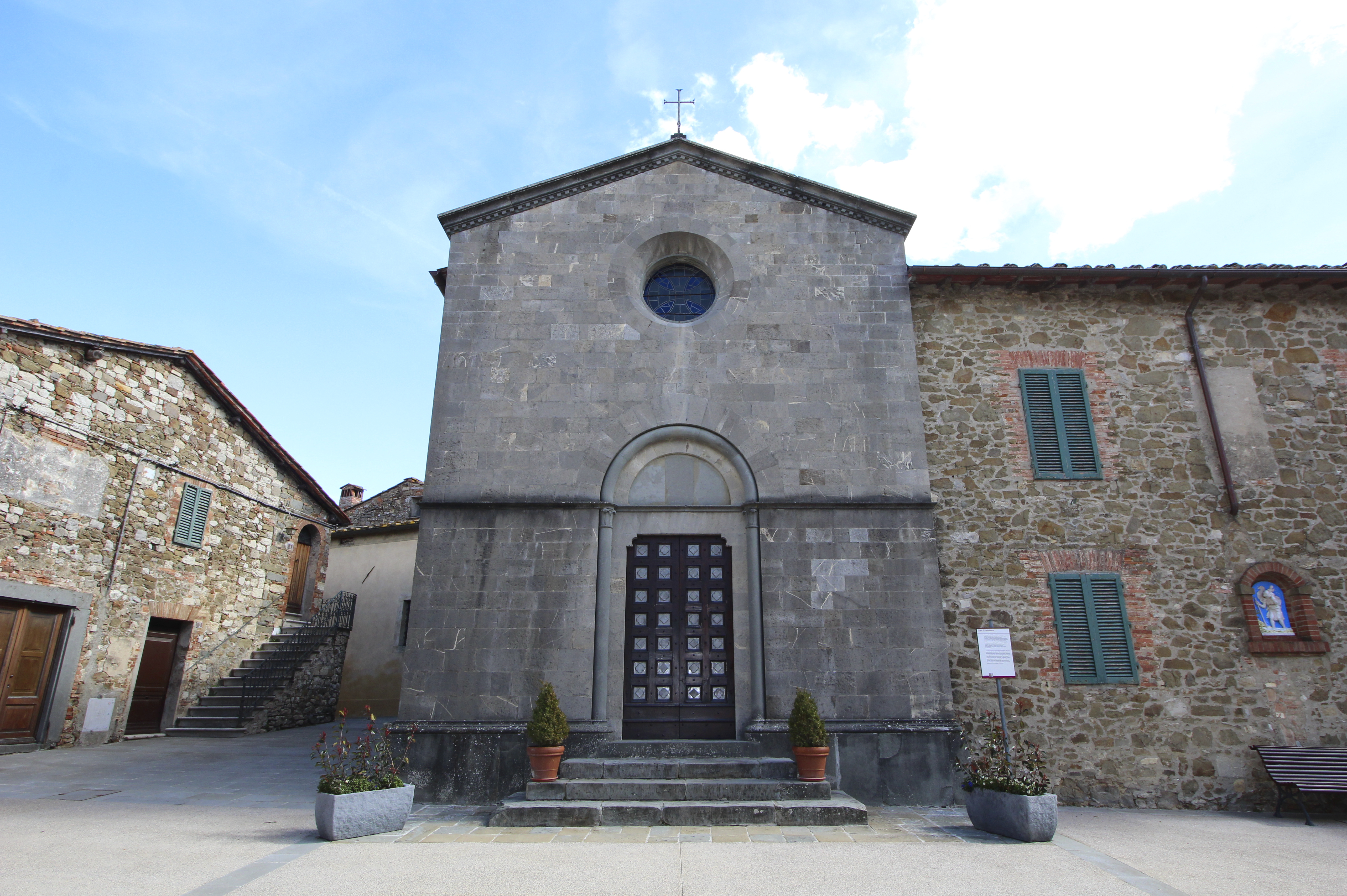 Church San Cristoforo, Vagliagli, hamlet of Castelnuovo Berardenga, Province of Siena, Tuscany, Italy